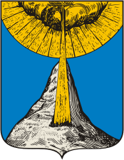 Rozhdestveno (Rozhestveno, Leningrad oblast), coat of arms (1780)